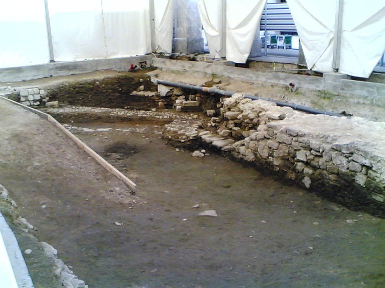 Archaeological remains found in the Plaza Porticada, in the city of Santander (Spain), of the former wall and Door of the Sea of the 13th century.